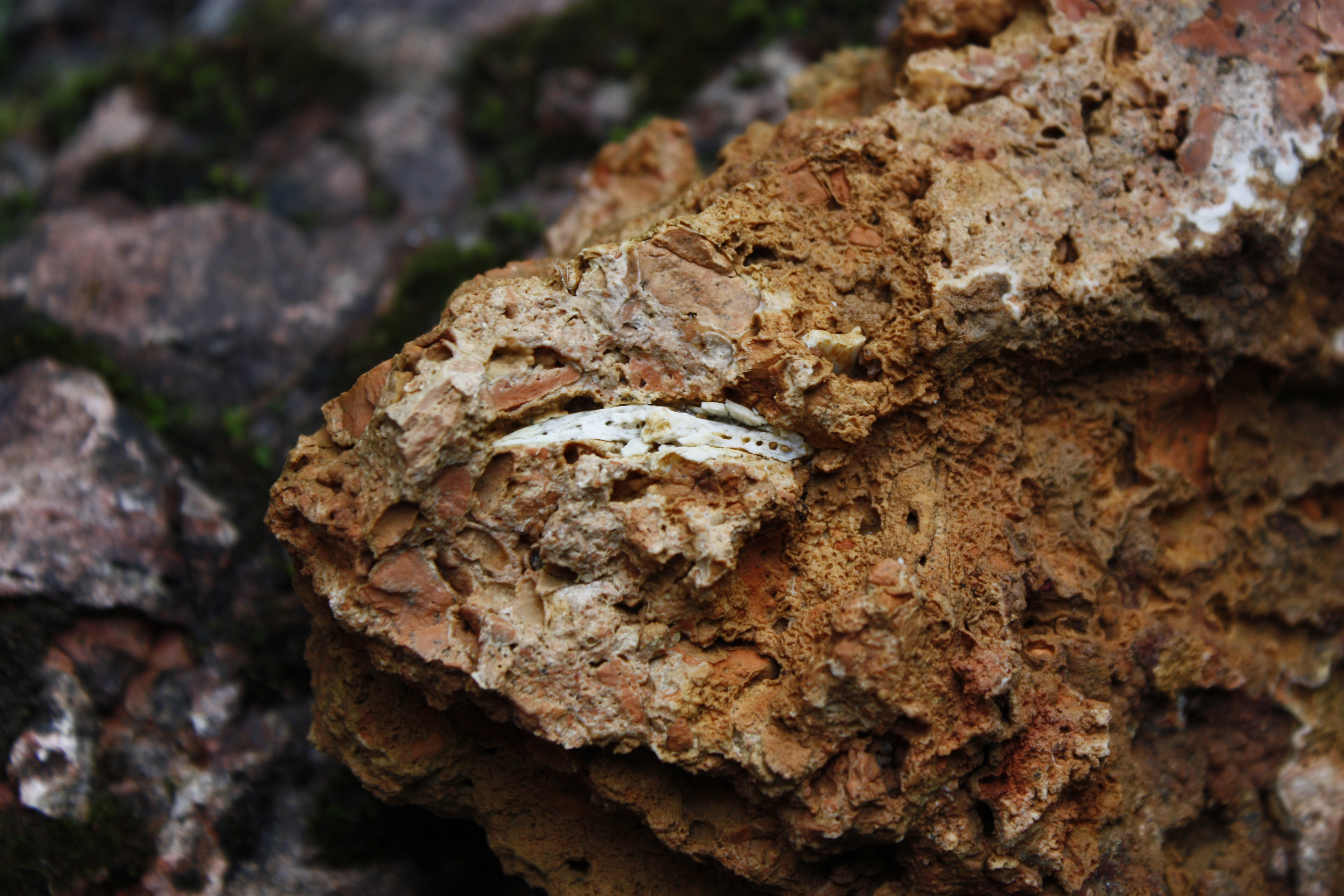 Picture of a petrification, Red Stone.